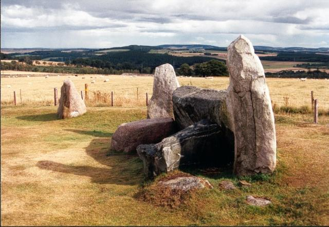 East Aquhorthies. Recumbent Stone Circle.